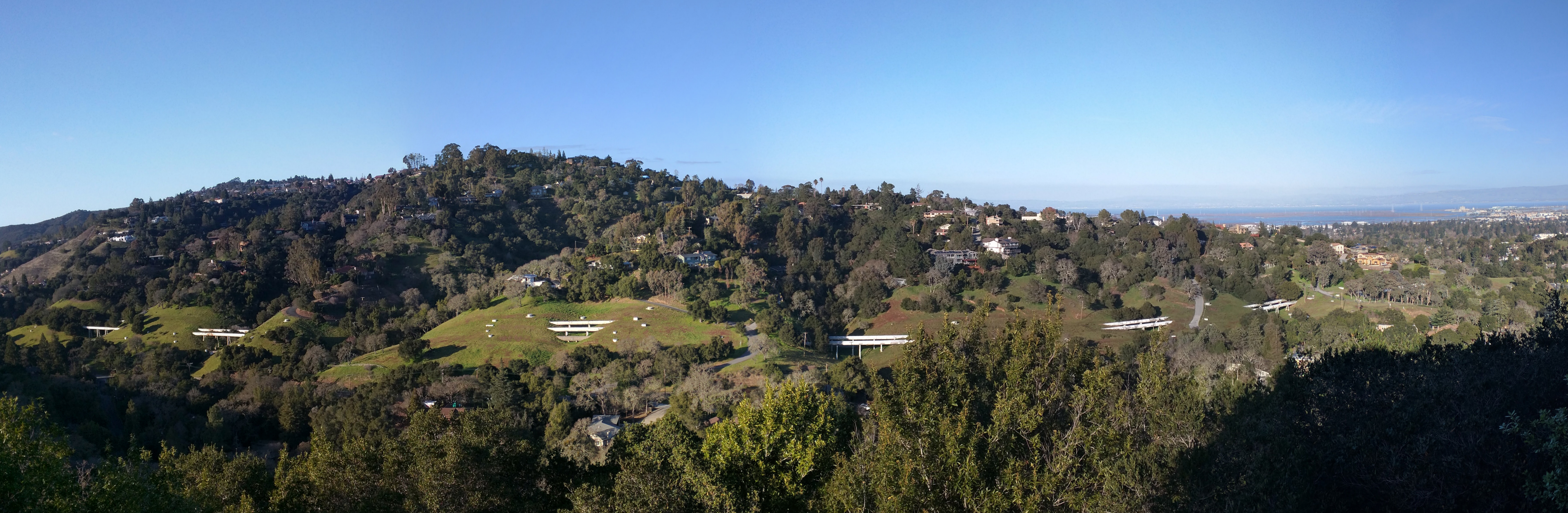 The Hetch Hetchy Aqueduct pipelines 1 and 2 as viewed from the Emerald Hills neighborhood in San Mateo County, California.